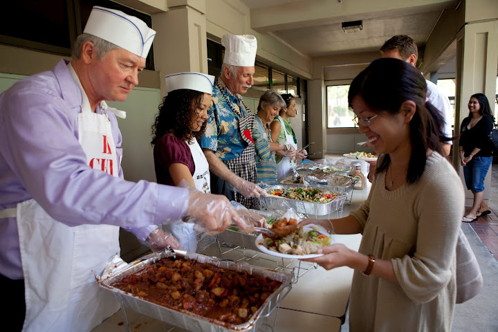 William S. Richardson School of Law Stew Day